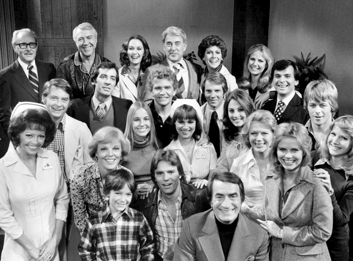 Cast photo from the daytime drama General Hospital. Note unwatermarked copy of photo has been uploaded. There are no copyright marks on the photo which can be seen at links above and on first upload here.